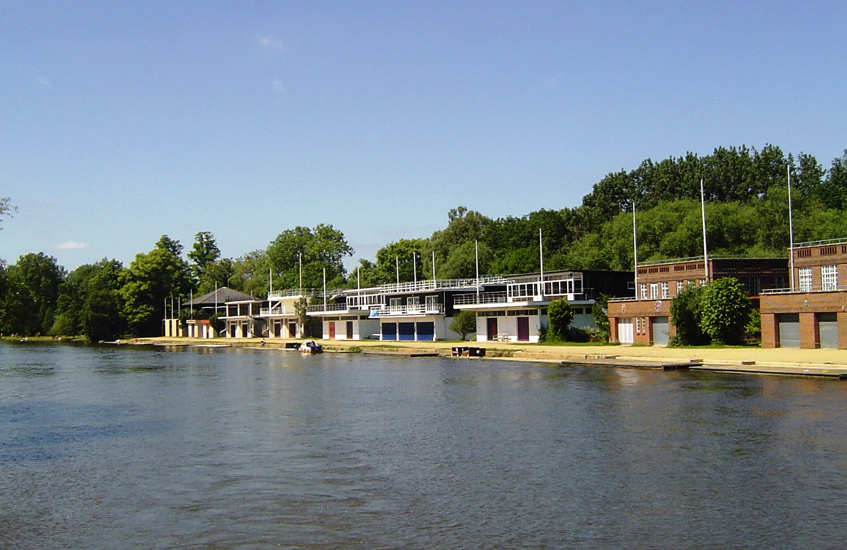 Oxford University College boat houses